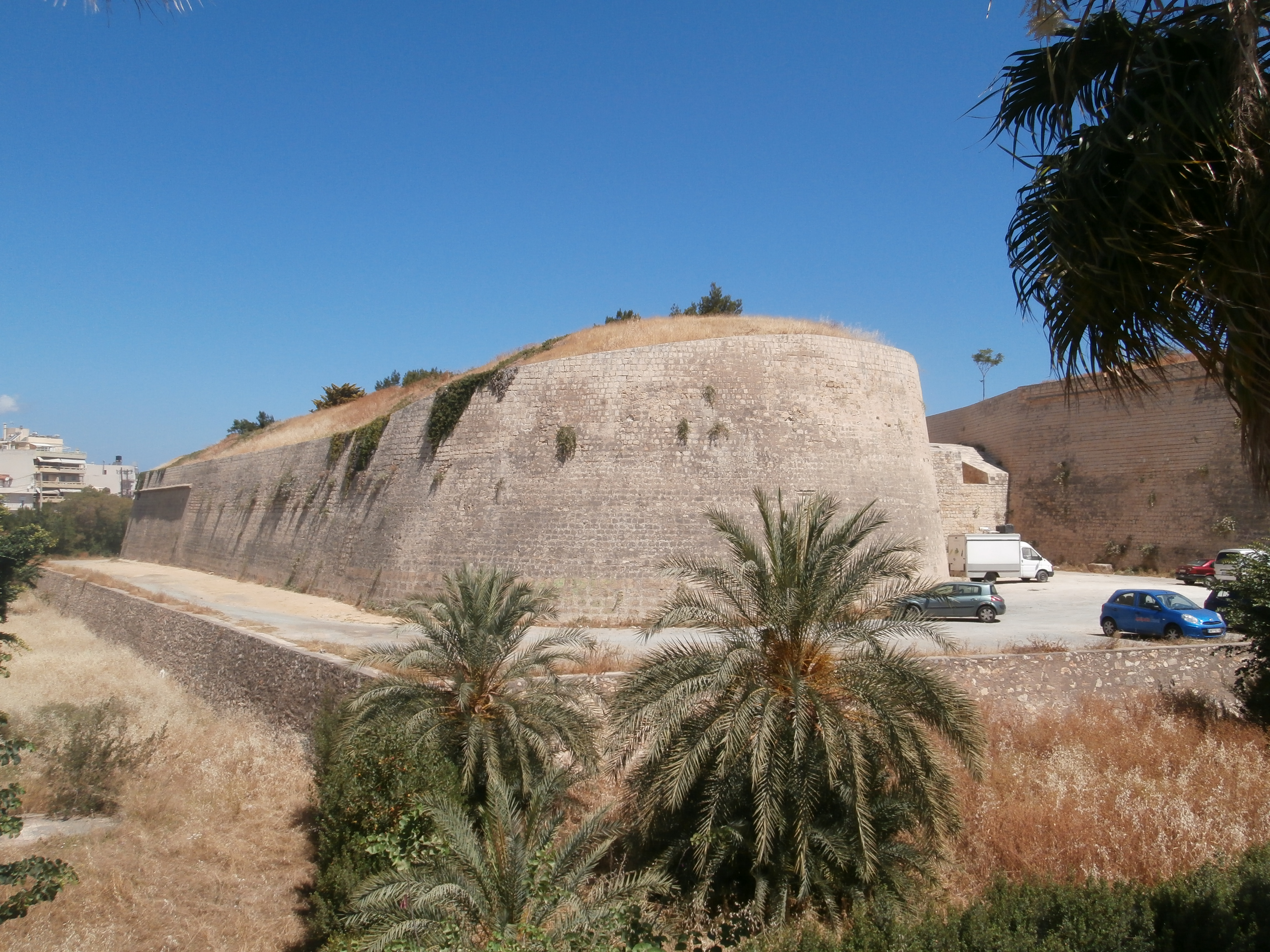 Bethlehem bastion, venetian walls of Herakleion